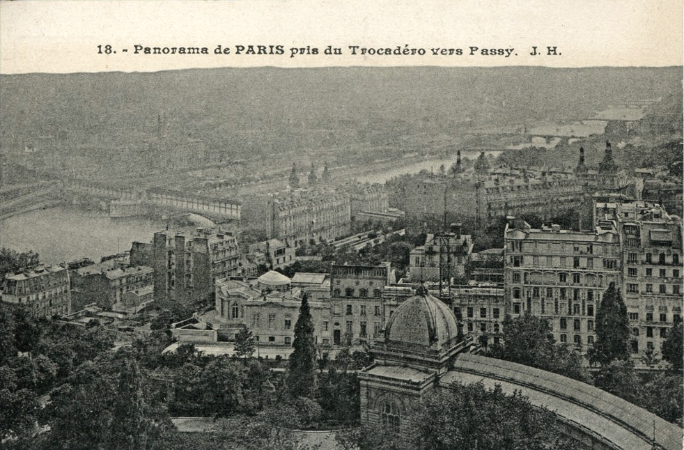 Postcard: Panorama of Paris, view from the Trocadero towards Passy